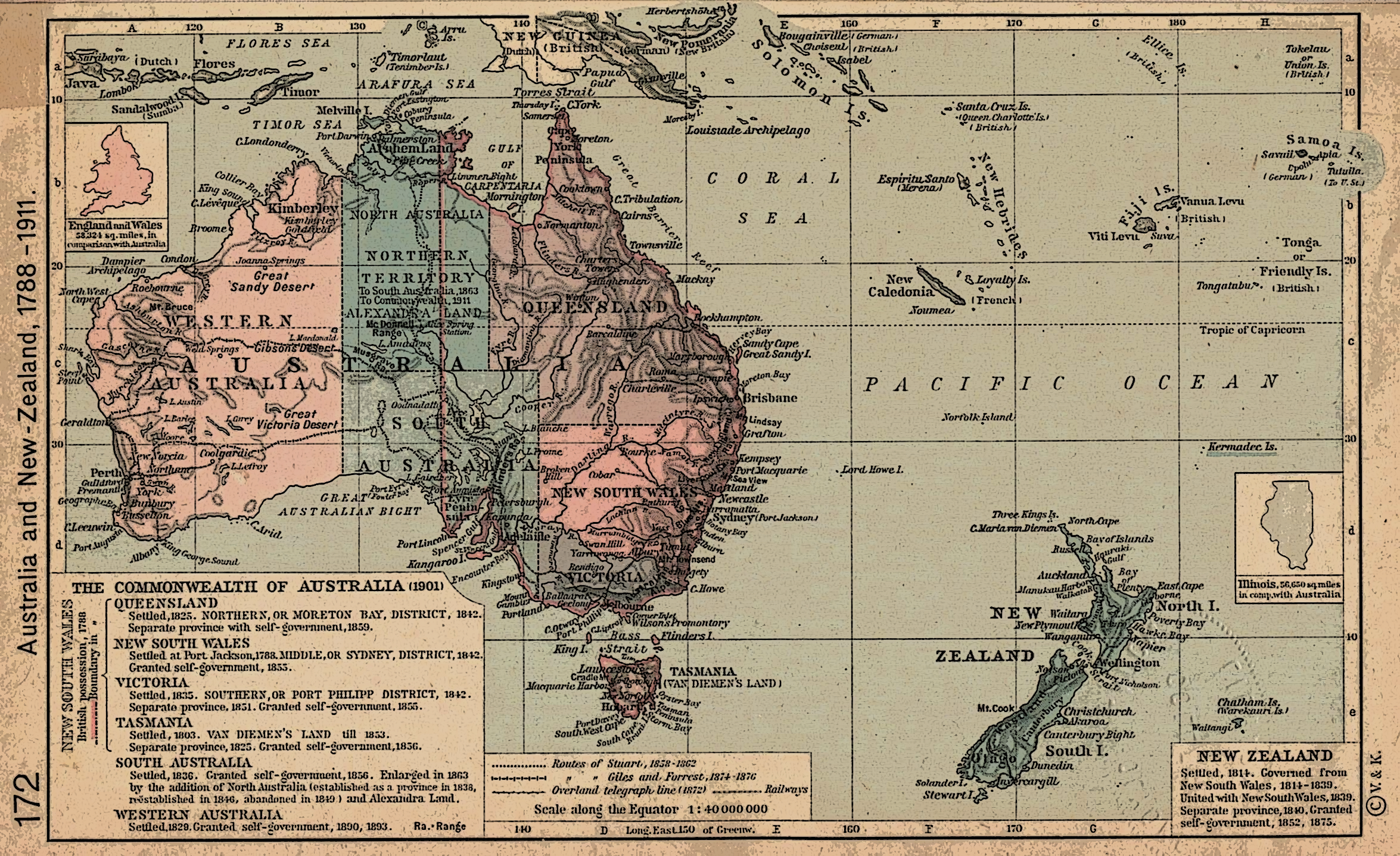 Scan from "Historical Atlas" by William R. Shepherd, New York, Henry Holt and Company, 1923. Original image at the Perry-Castañeda Library Map Collection at the University of Texas at Austin website: From the FAQ @ Most of the maps scanned by the University of Texas Libraries and served from this web site are in the public domain. No permissions are needed to copy them. You may download them and use them as you wish. A few maps are copyrighted, and are clearly marked as such. Any that are copyrighted by The University of Texas are subject to our Materials Usage Guidelines. This map is not so marked. Commons:Category:Maps showing history by William R. Shepherd Commons:Category:1788 Commons:Category:Maps of Australia